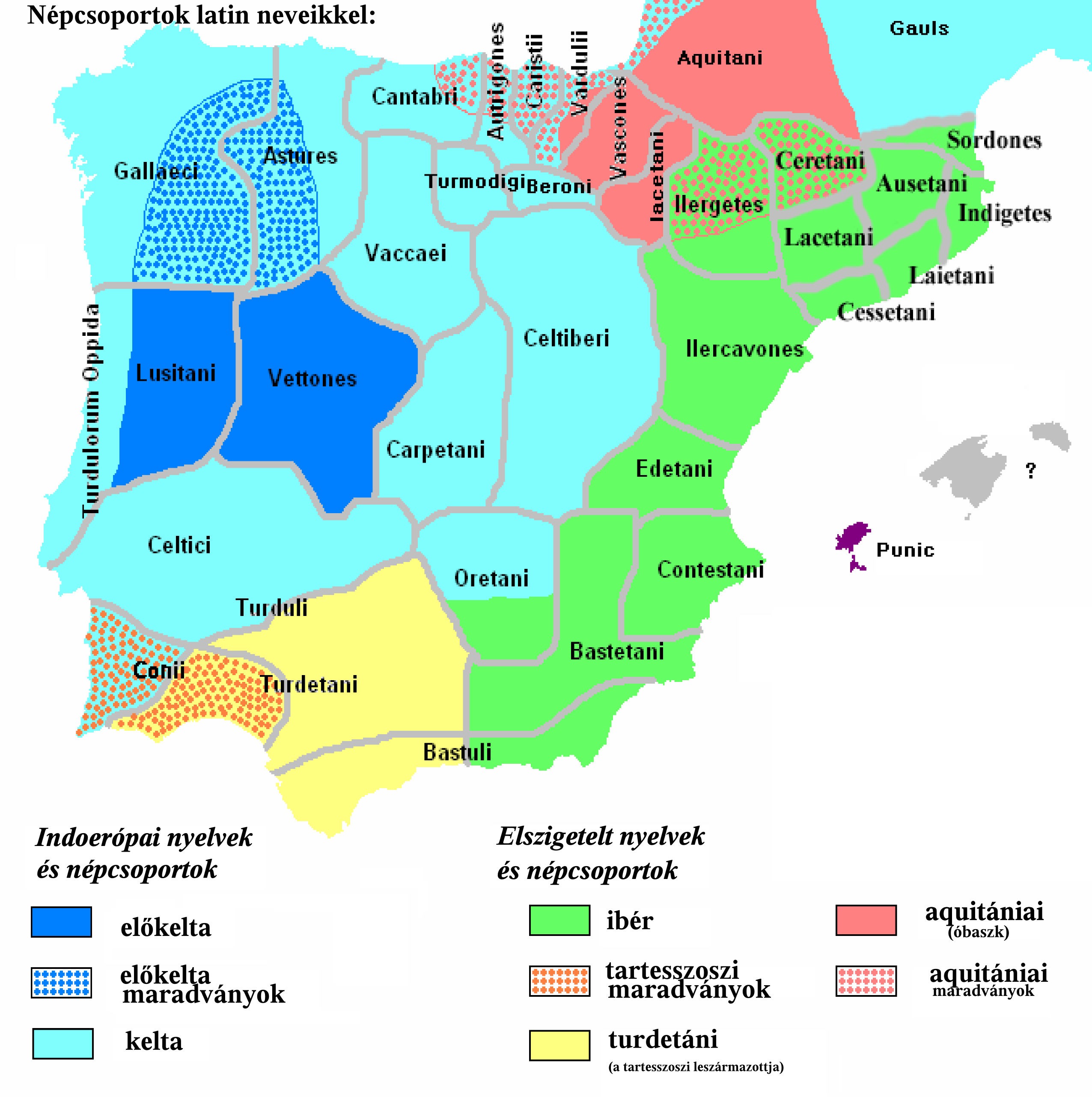 Ethnographic and Linguistic Map of the Iberian Peninsula at about 200 BCE (at the end of the Second Punic War). Hungarian translation. Based on the map done by Portuguese Archeologist Luís Fraga (luis).